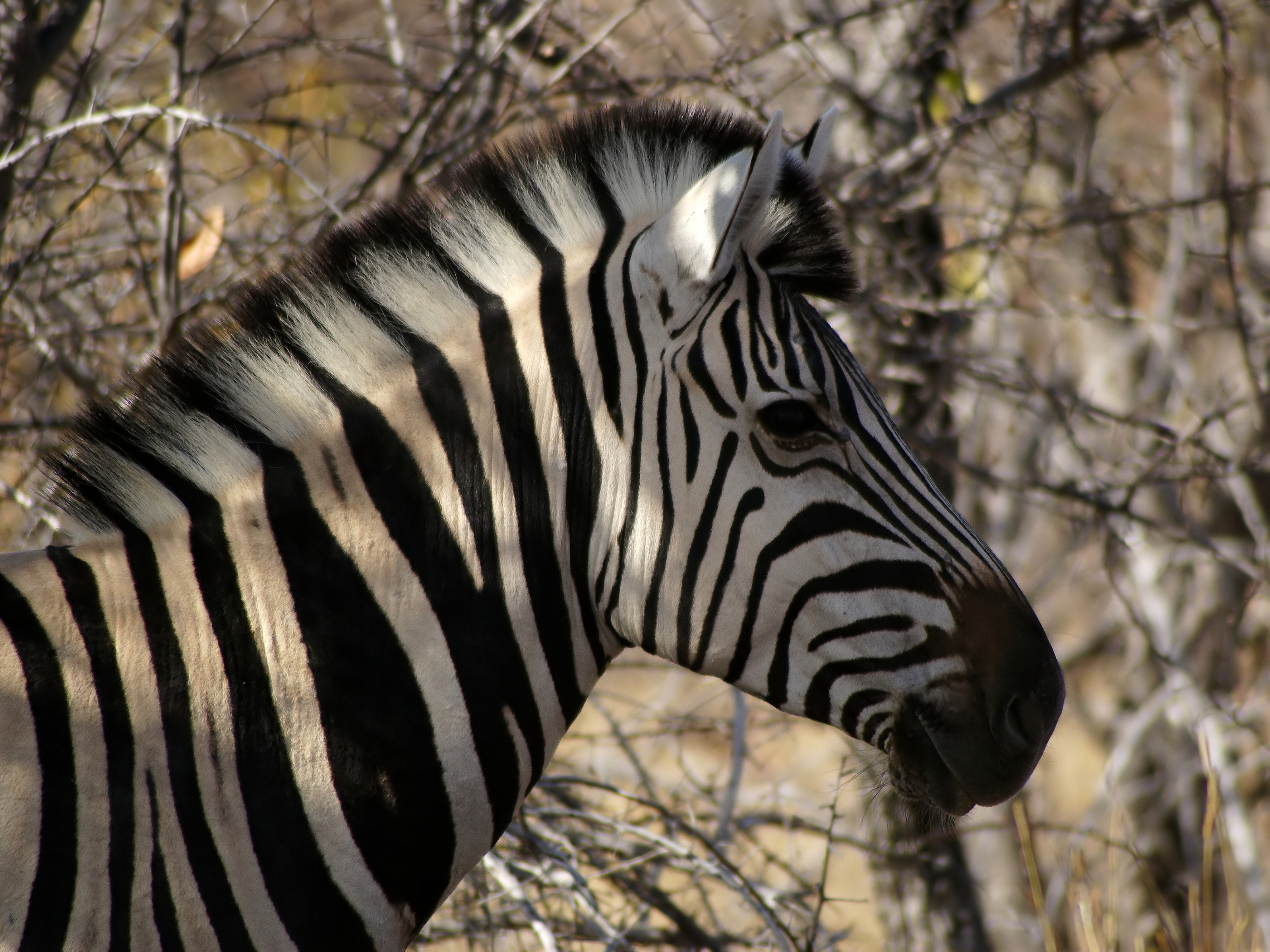 Closeup of a Damara Zebra close to Kalkheuwel waterhole, Etosha, Namibia.